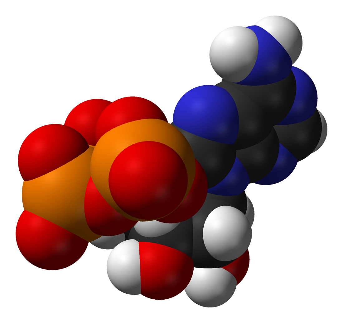 Space-filling model of adenosine triphosphate (ATP), based on x-ray diffraction data from Olga Kennard, N. W. Isaacs, W. D. S. Motherwell, J. C. Coppola, D. L. Wampler, A. C. Larson, D. G. Watson (1971). "The Crystal and Molecular Structure of Adenosine Triphosphate". Proceedings of the Royal Society of London. Series A, Mathematical and Physical Sciences 325: 401-436.